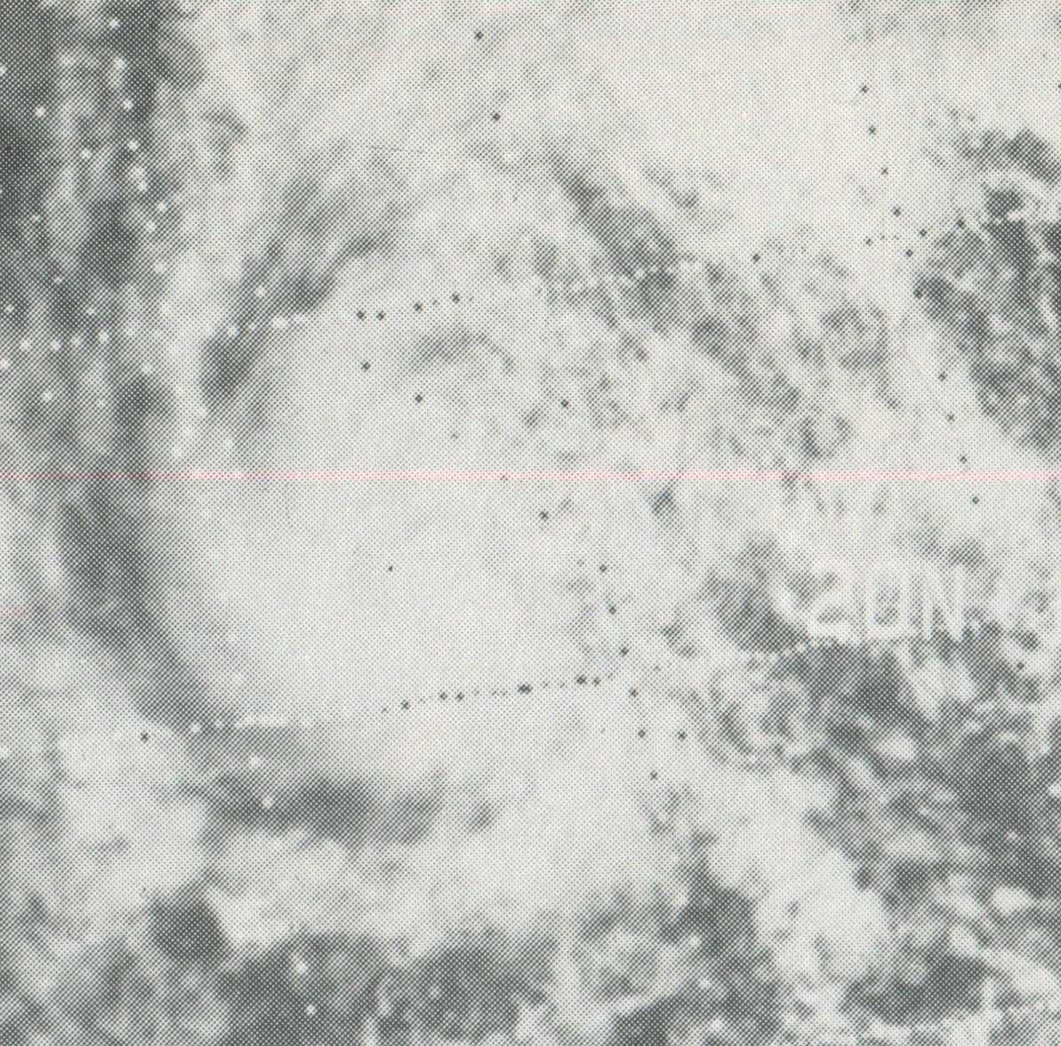 This weather satellite image of Hurricane Orlene was taken around 2245 UTC on September 23, 1974, just prior to its landfall upon southwest Mexico